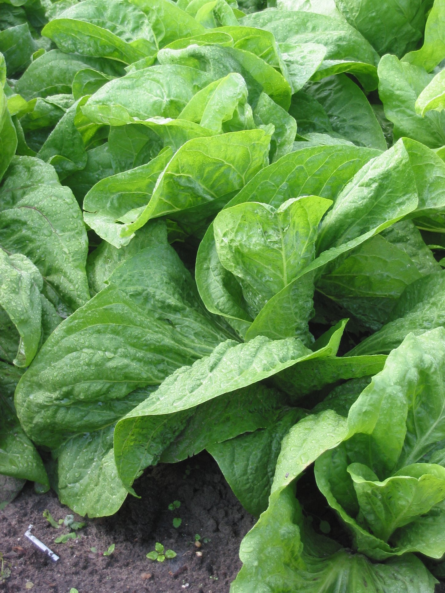 (nl: Groenlof) Cichorium intybus var. foliosum